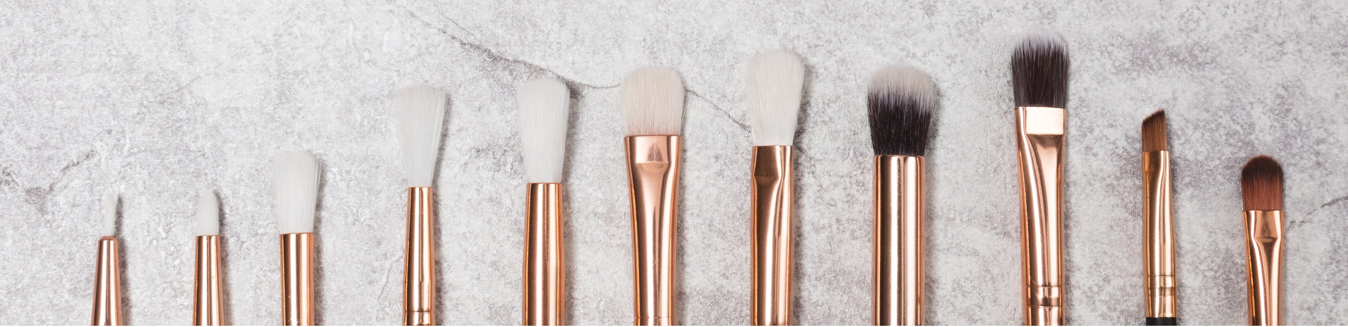 Makeup brush tips on a white background